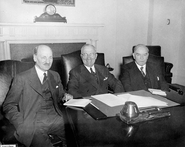 Rt. Hon. Clement Attlee, President Harry Truman and Rt. Hon. W.L. Mackenzie King concluding talks on atomic energy